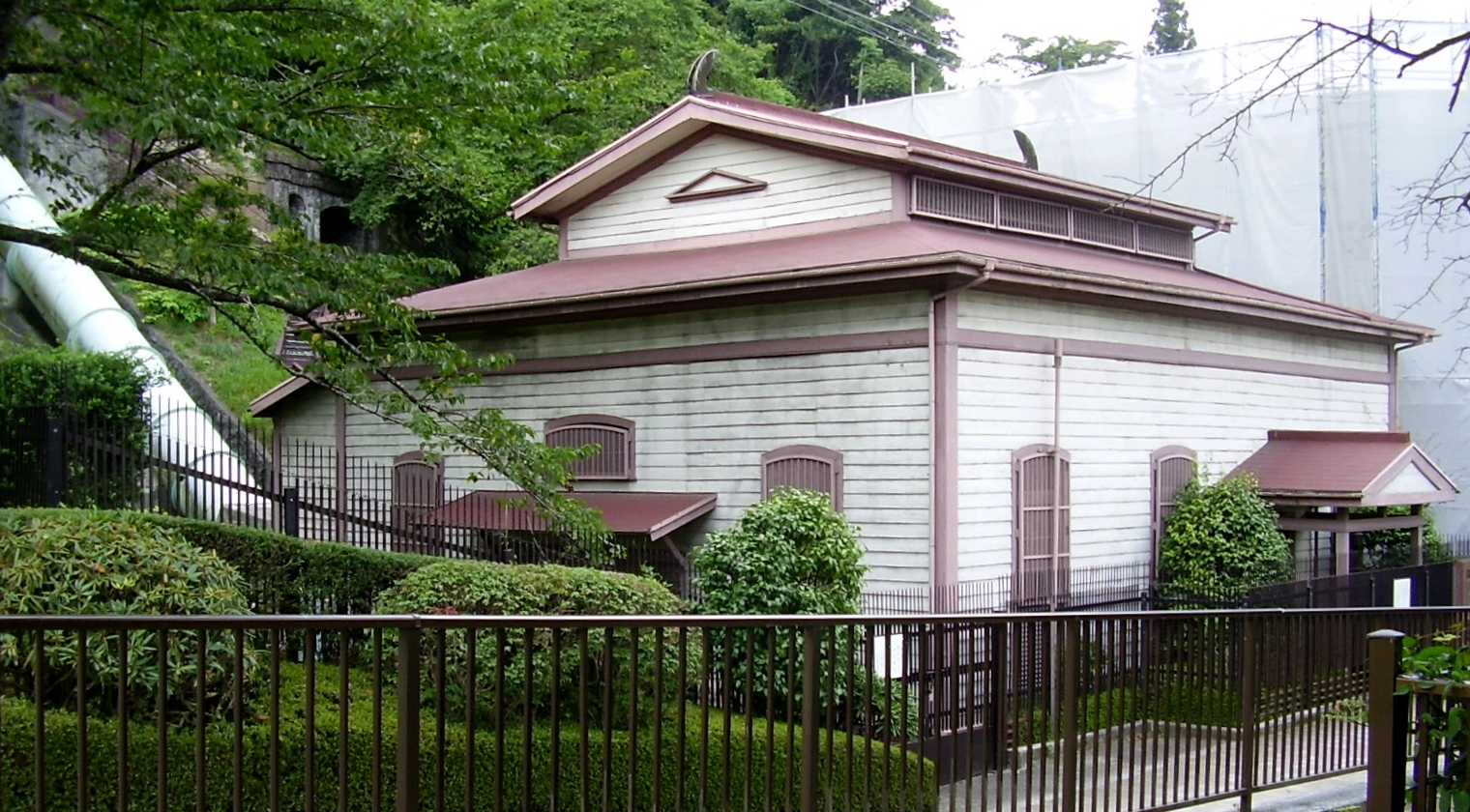 Sankyozawa Power Station in Aoba-ku, Sendai City, Miyagi Prefecture, Japan